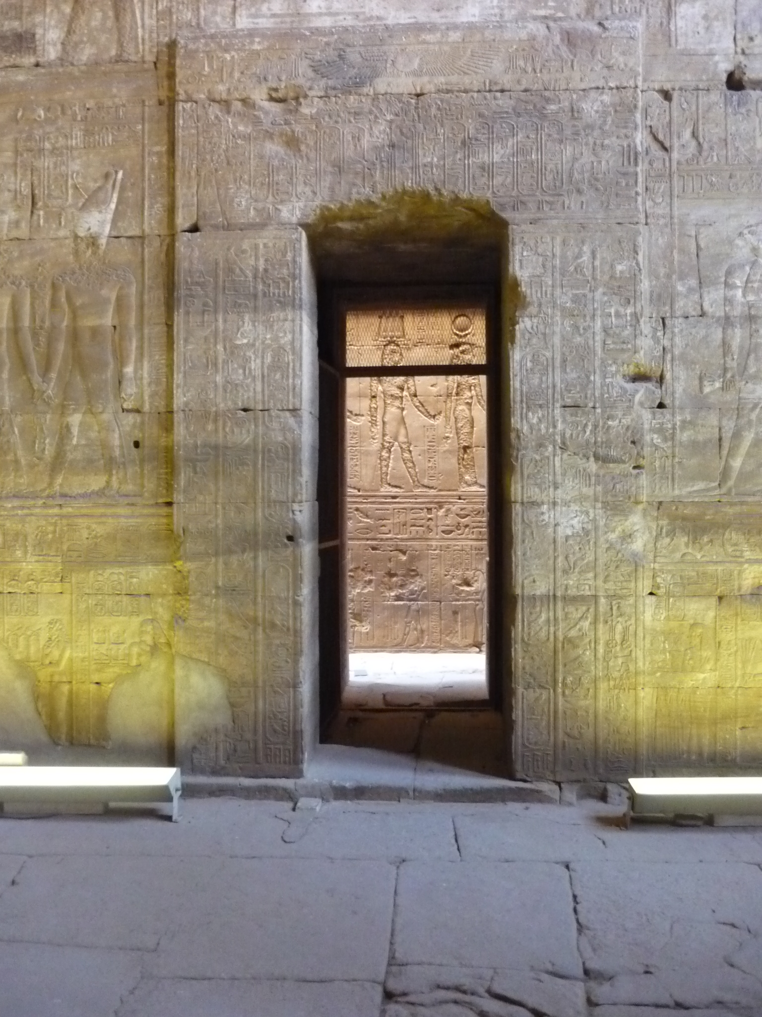 Gate between second hypostyle hall and east ambulatory, temple of Edfu, Egypt